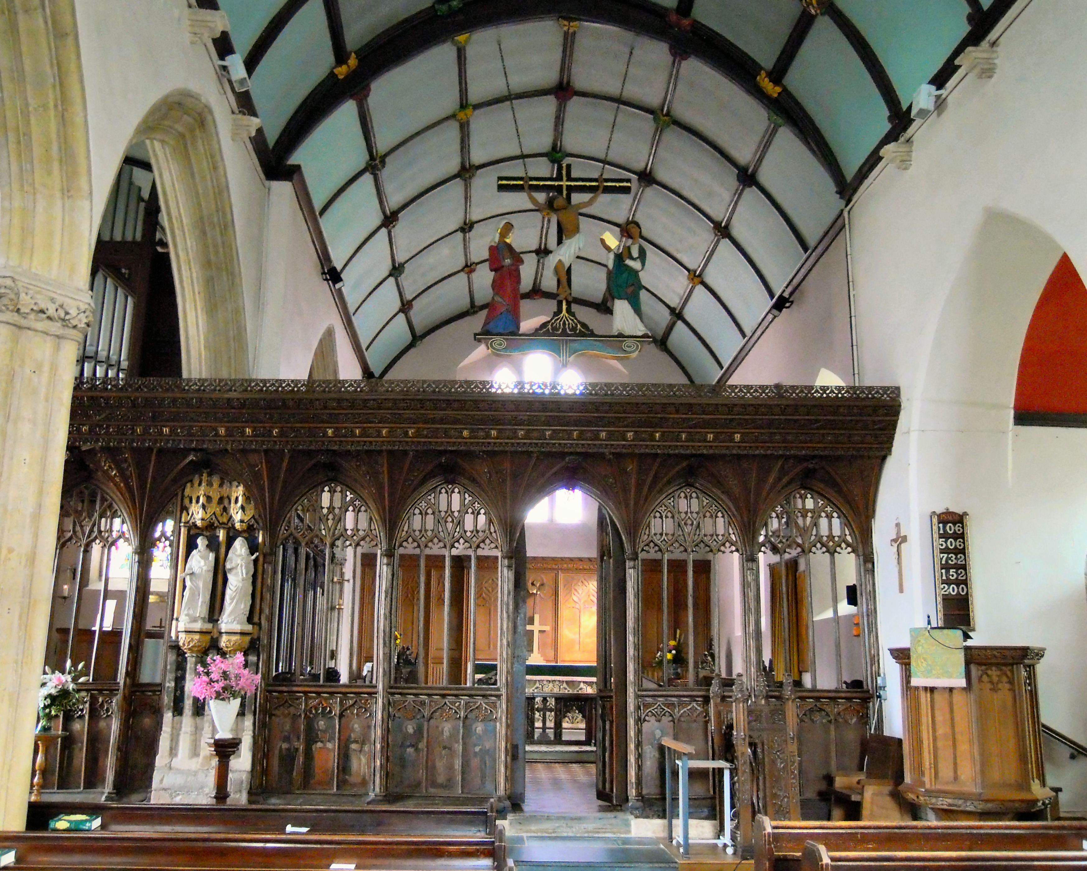 Looking east towards the 15th-century painted Rood Screen in Church of St Peter ad Vincula in Combe Martin in North Devon